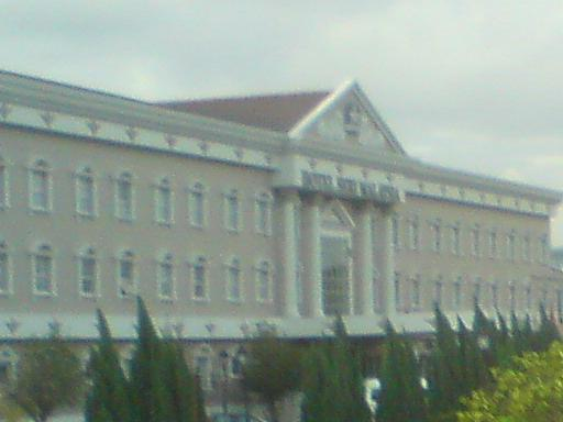 hotel seri malaysia